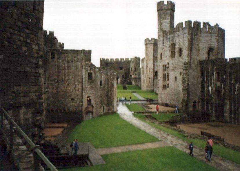 Wales, Caernarfon castle. Author: Wojsyl